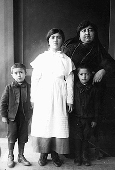 Malekeh Jahan, Mohammad Ali Shah Qajar's wife, with her children